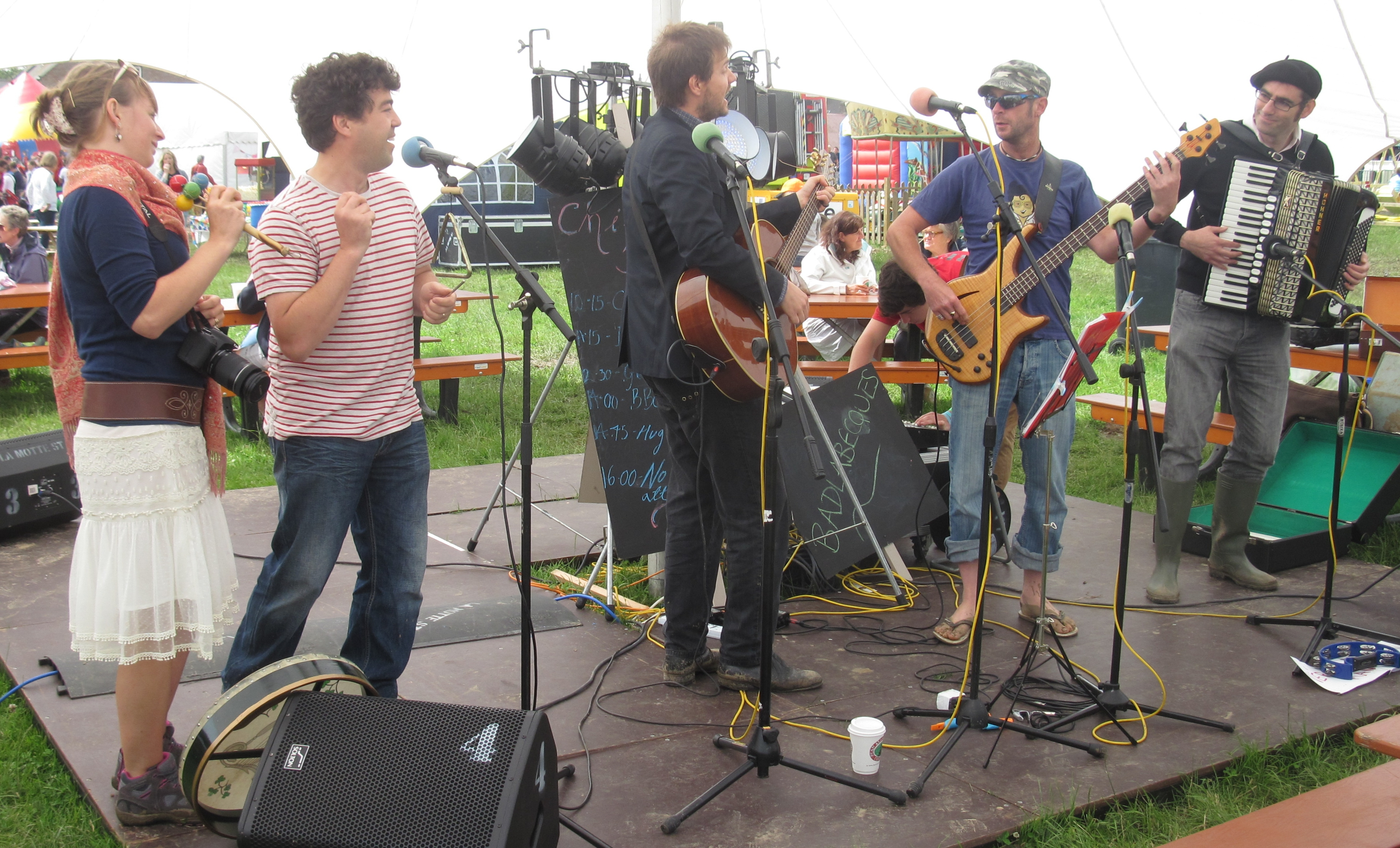 West Show, Jersey, 7-8 July 2012